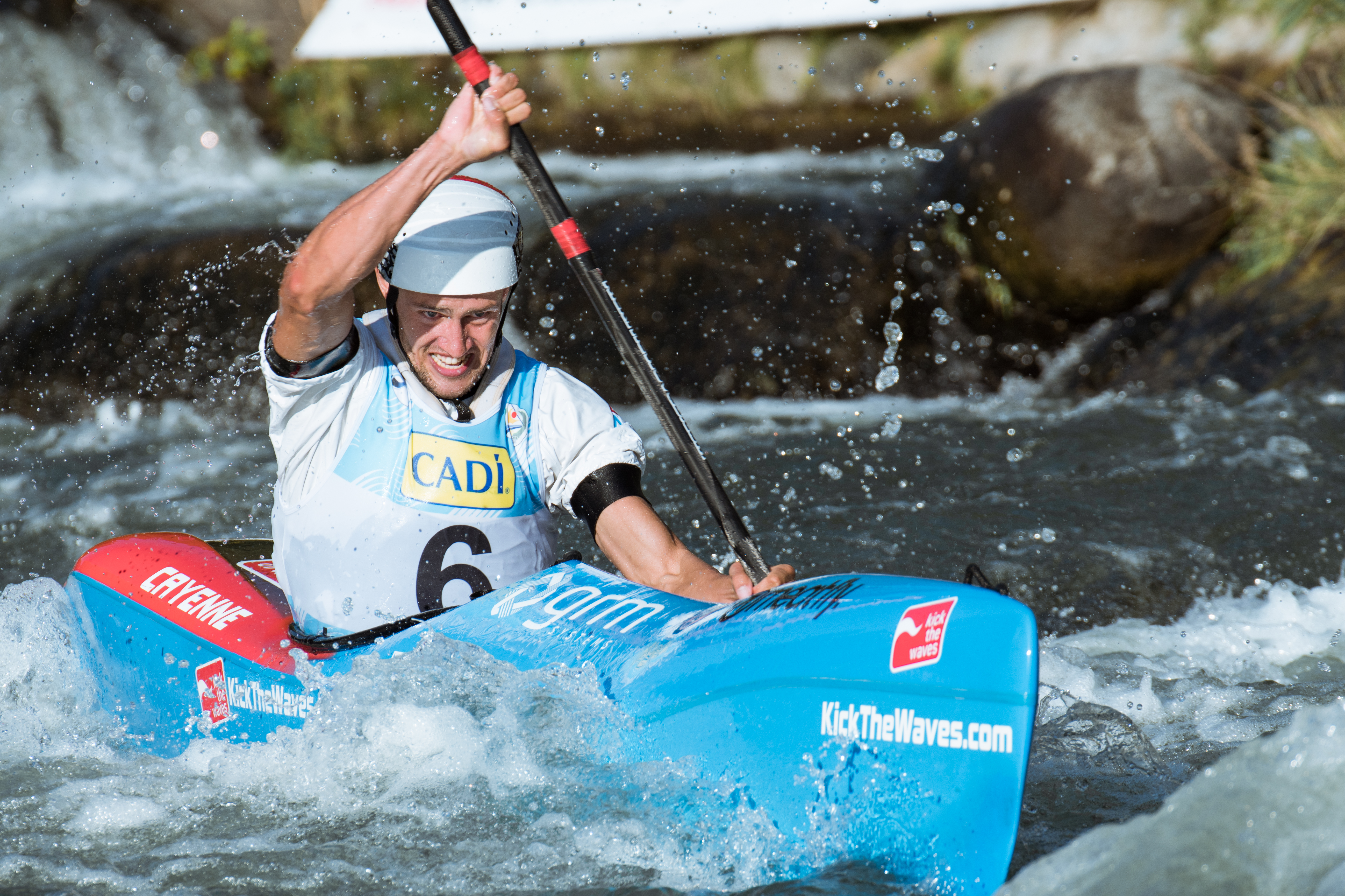 Adam Satke during the 2019 Canoe Wildwater World Championships in La Seu d'Urgell, Spain.